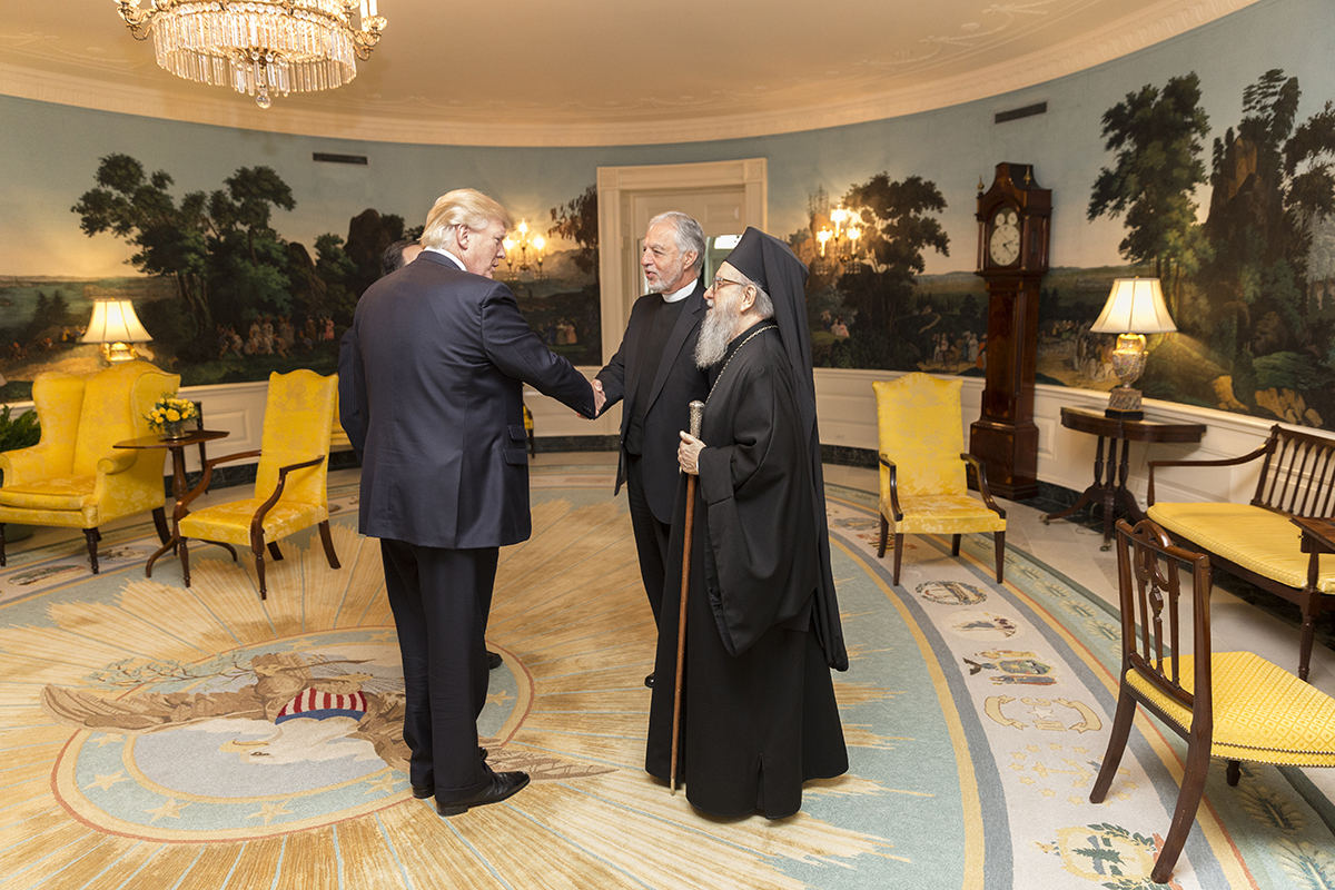 President Donald Trump greets Elder Archbishop Demetrios and Father Alex Karloutsos of the Greek Orthodox Archdiocese of America in the Diplomatic Receiving Room, Friday, March 24, 2017, prior to the Greek Independence Day Celebration at the White House. (Official White House Photo by Benjamin Applebaum)